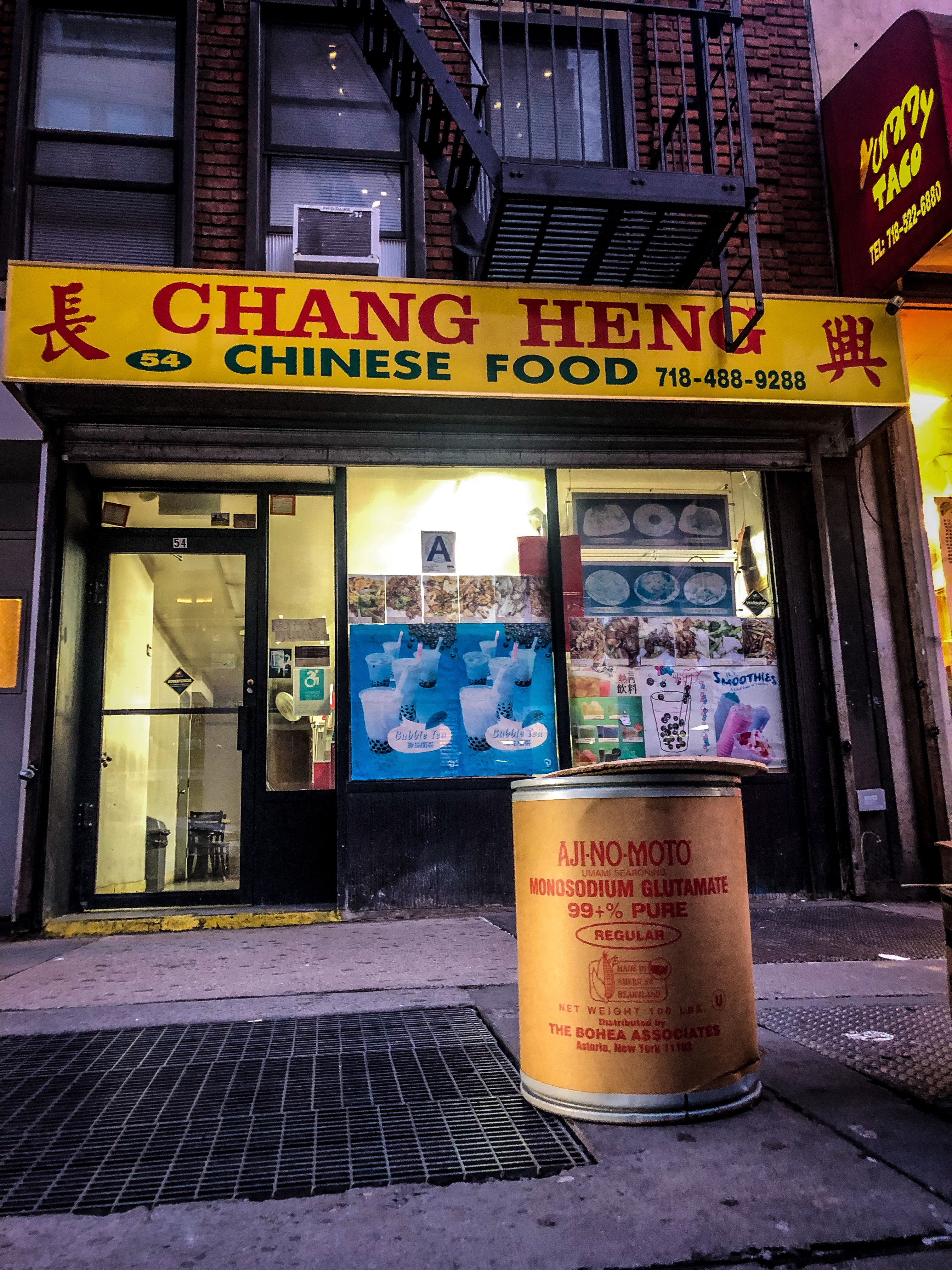 A Chinese Food Storefront in New York, NY